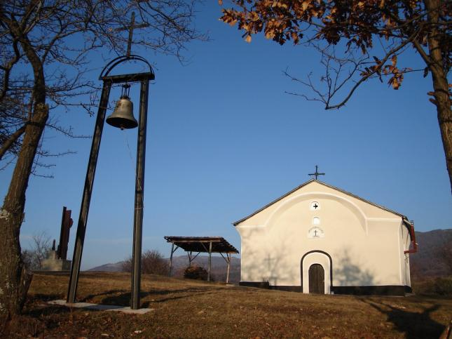 Church "Saint John Baptist" in village Bobeshino, Bulgaria, dated 1886